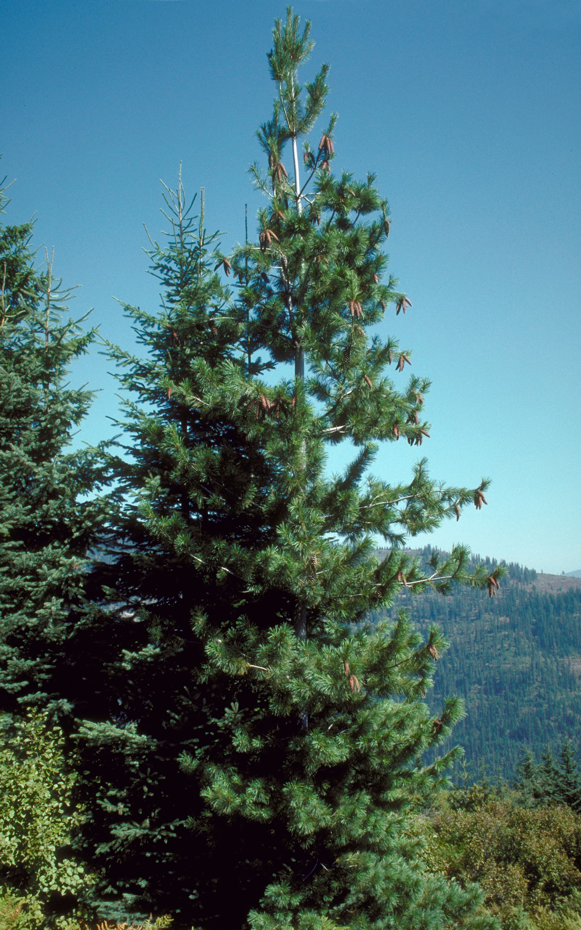 Young Pinus monticola, Idaho.